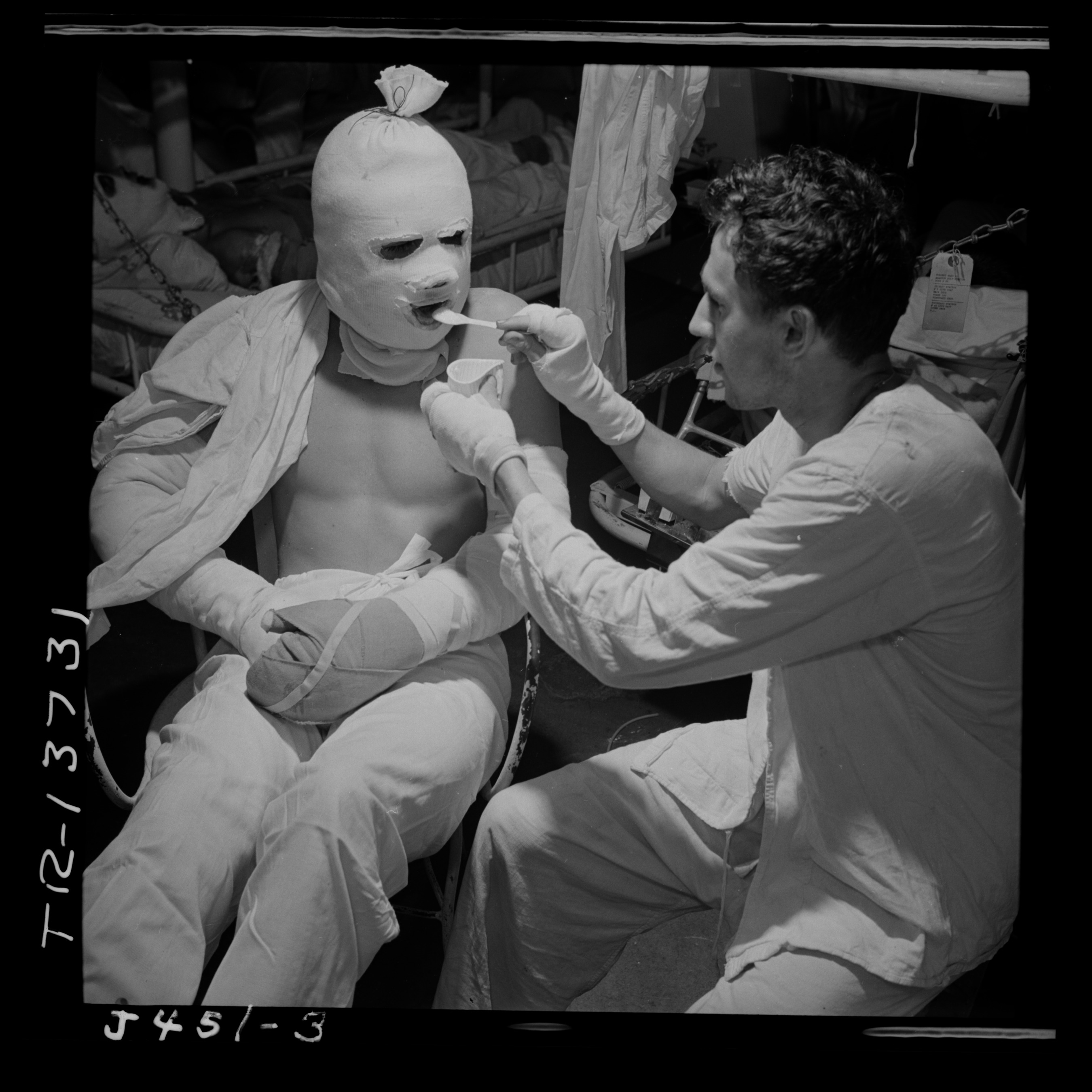 General notes: Use War and Conflict Number 924 when ordering a reproduction or requesting information about this image.